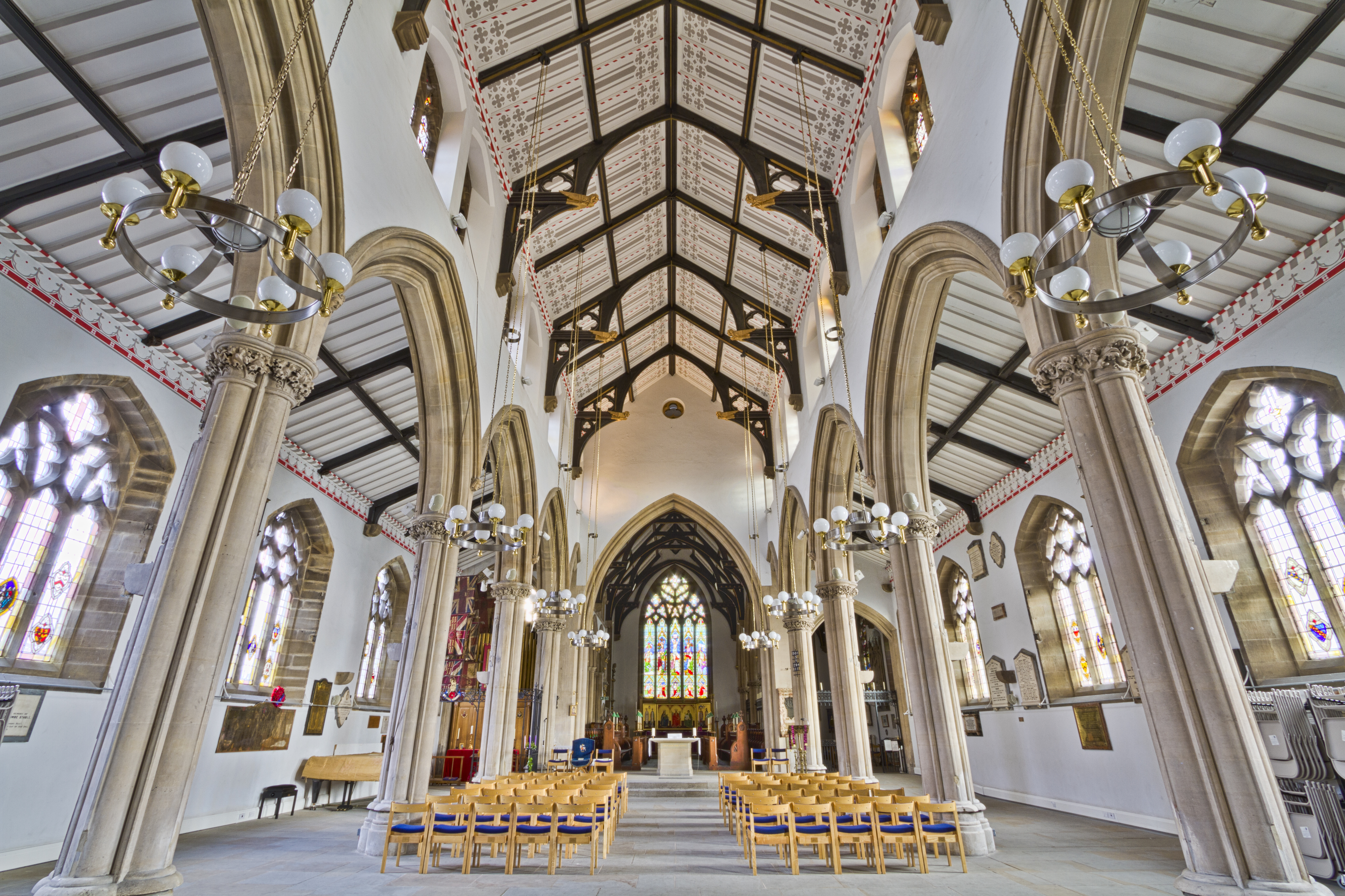 Inside the nave of St John's minster, Preston, Lancashire, looking east to the chancel